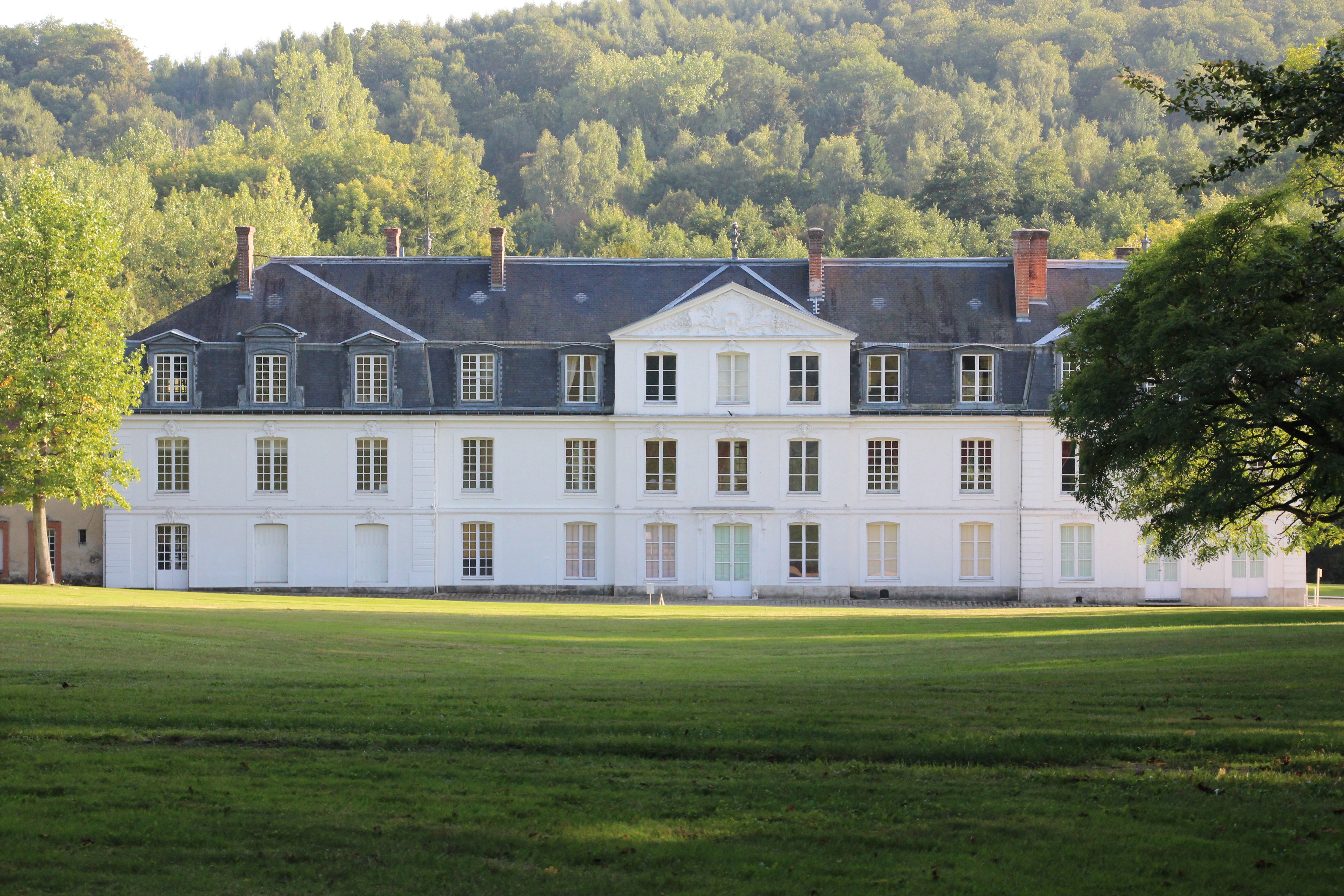 Mauvières castle in Saint-Forget, France